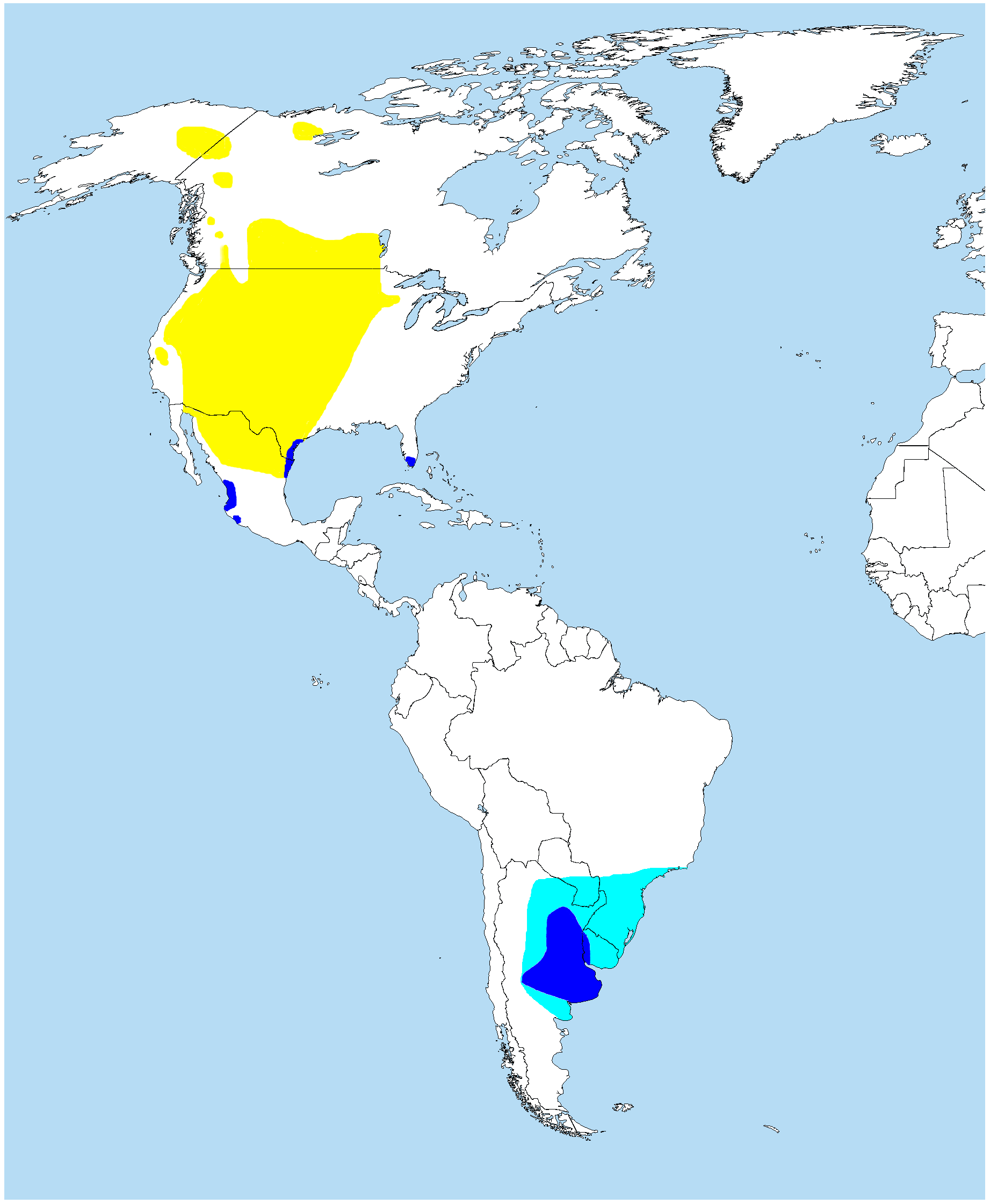 Distribution map of Buteo swainsoni